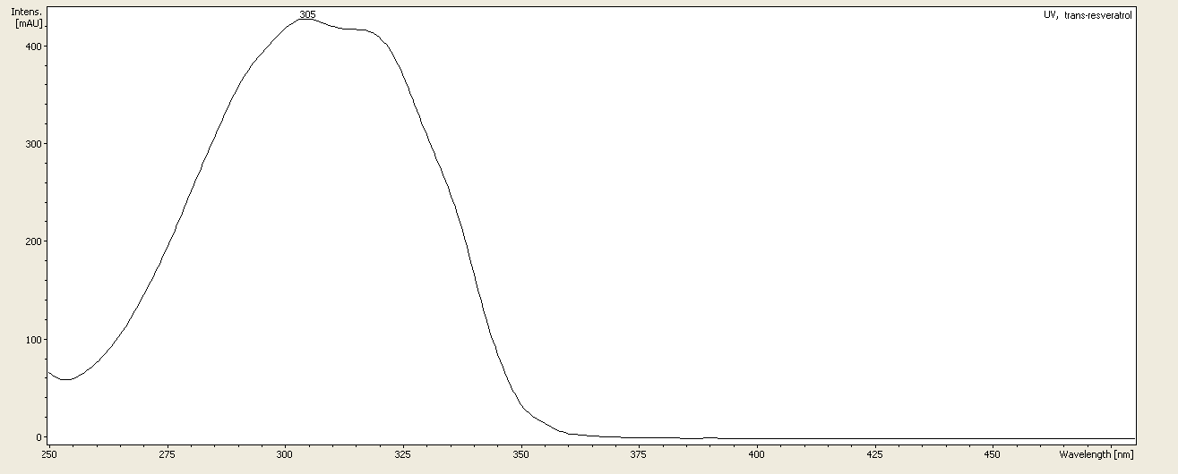 UV visible spectrum of trans-resveratrol